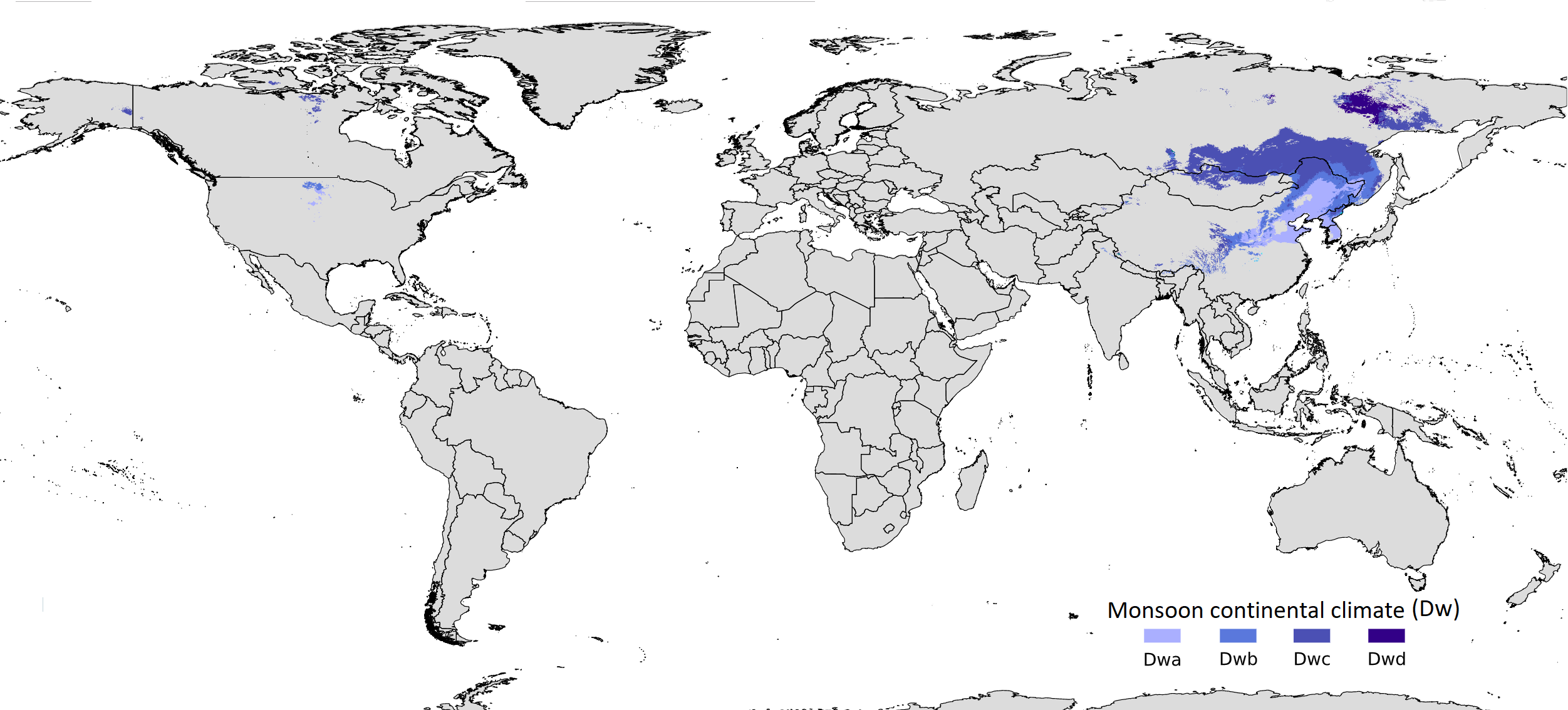 Global map for dry winter continental climate (Dw)